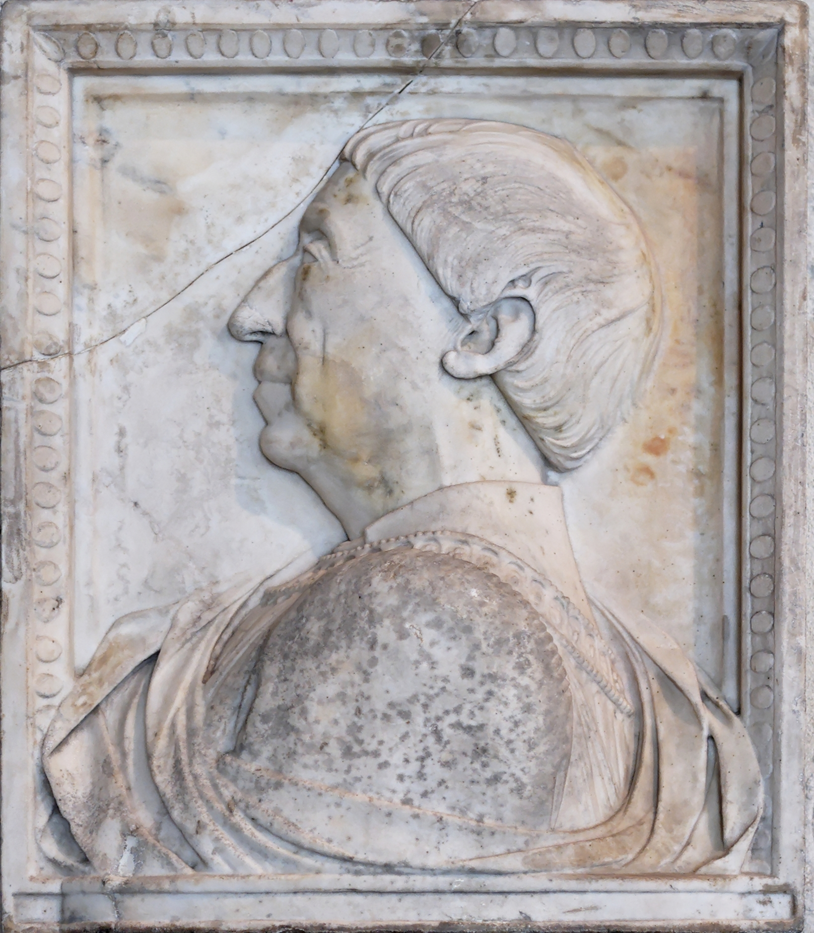 Portrait of Alfons I of Naples (also Alfons V of Aragon), surnamed the Magnanimous.